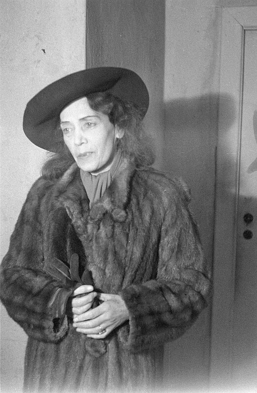 Original image description from the Deutsche FotothekMary Wigman, Prof. Benedik